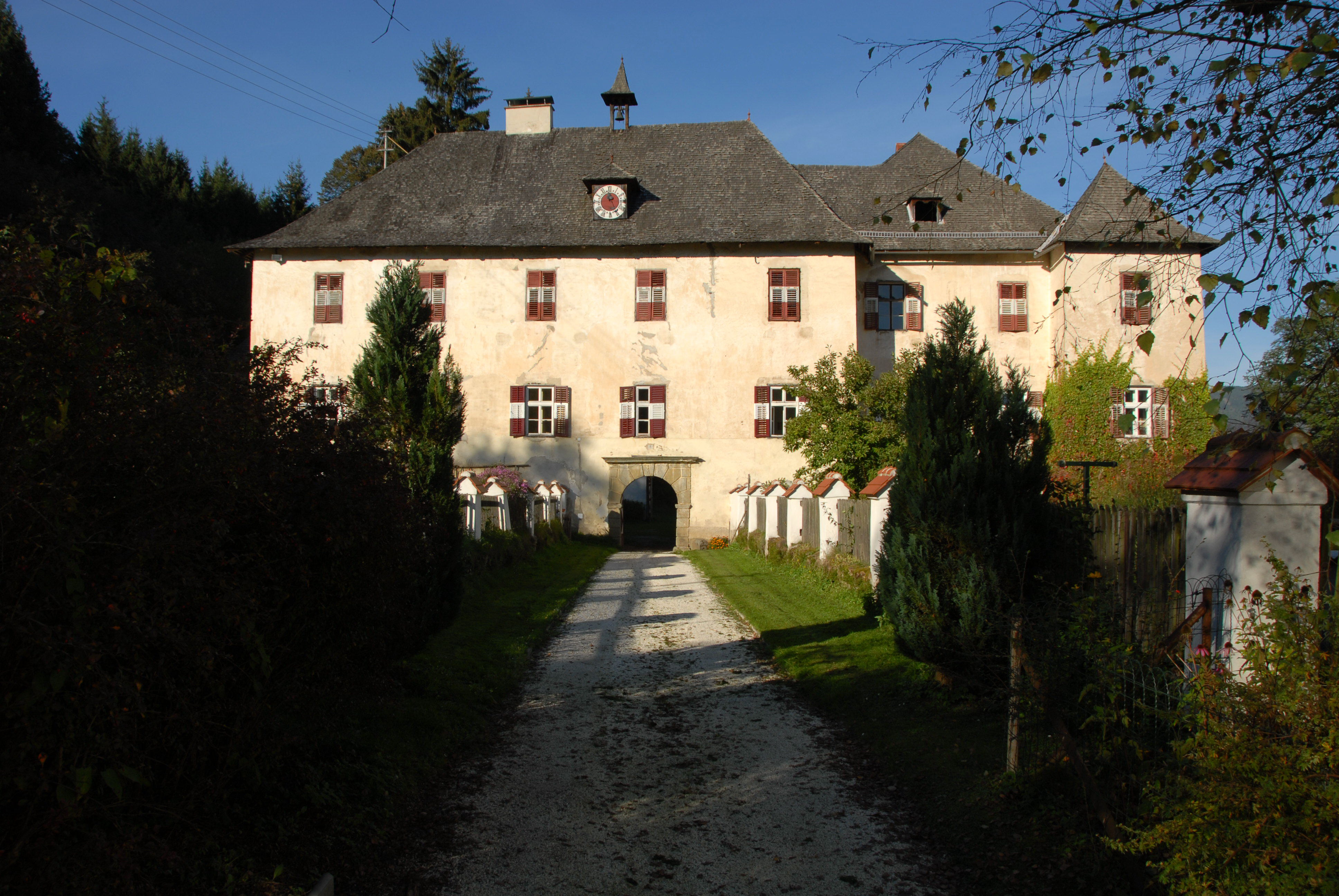 Castle Toellerberg, municipality Voelkermarkt, district Voelkermarkt, Carinthia, Austria, EU